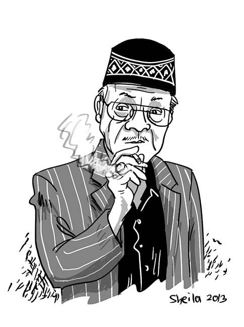 Eyang Subur caricature by Sheila Rooswitha Putri (Lala) who has been given permission to use.